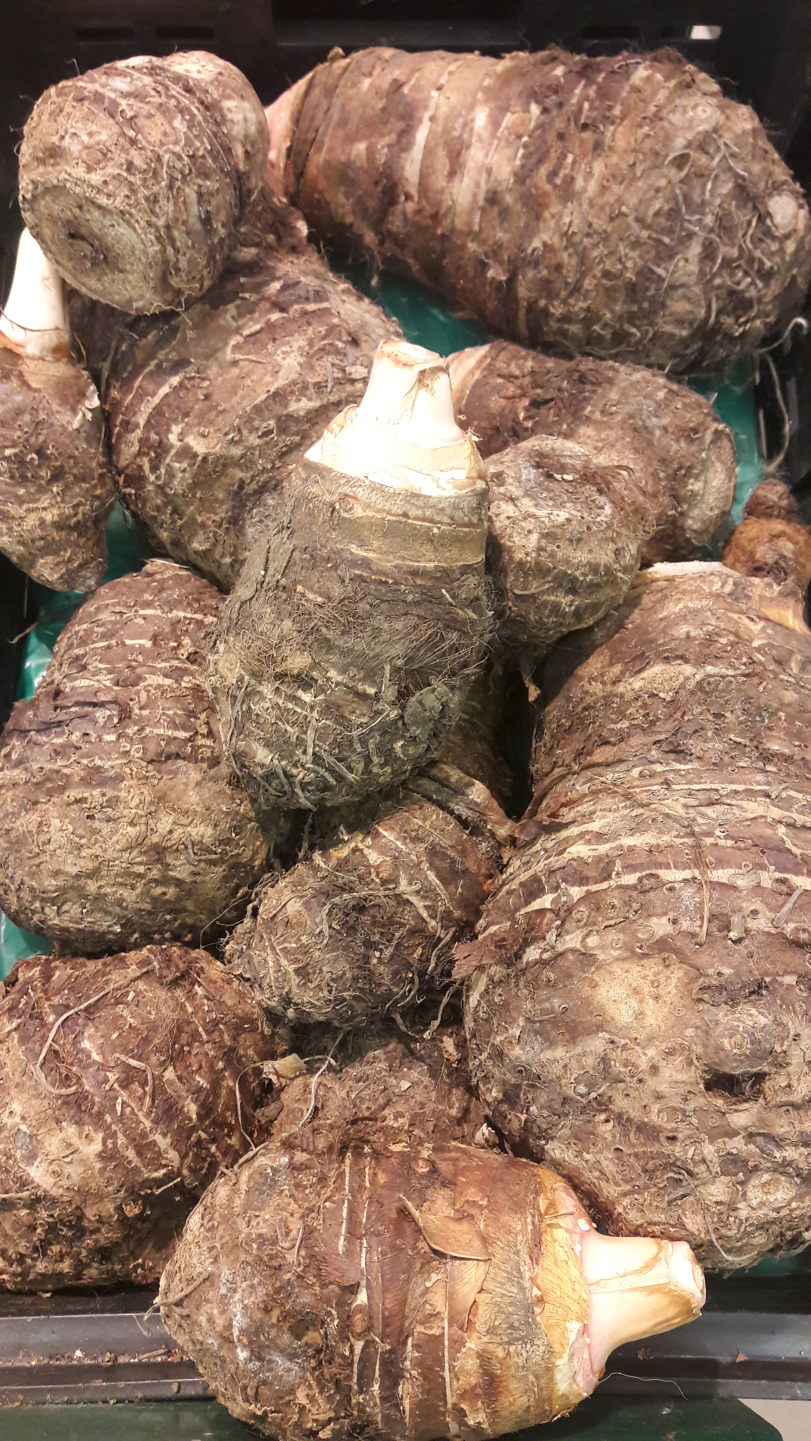 Taro (Colocasia esculenta)